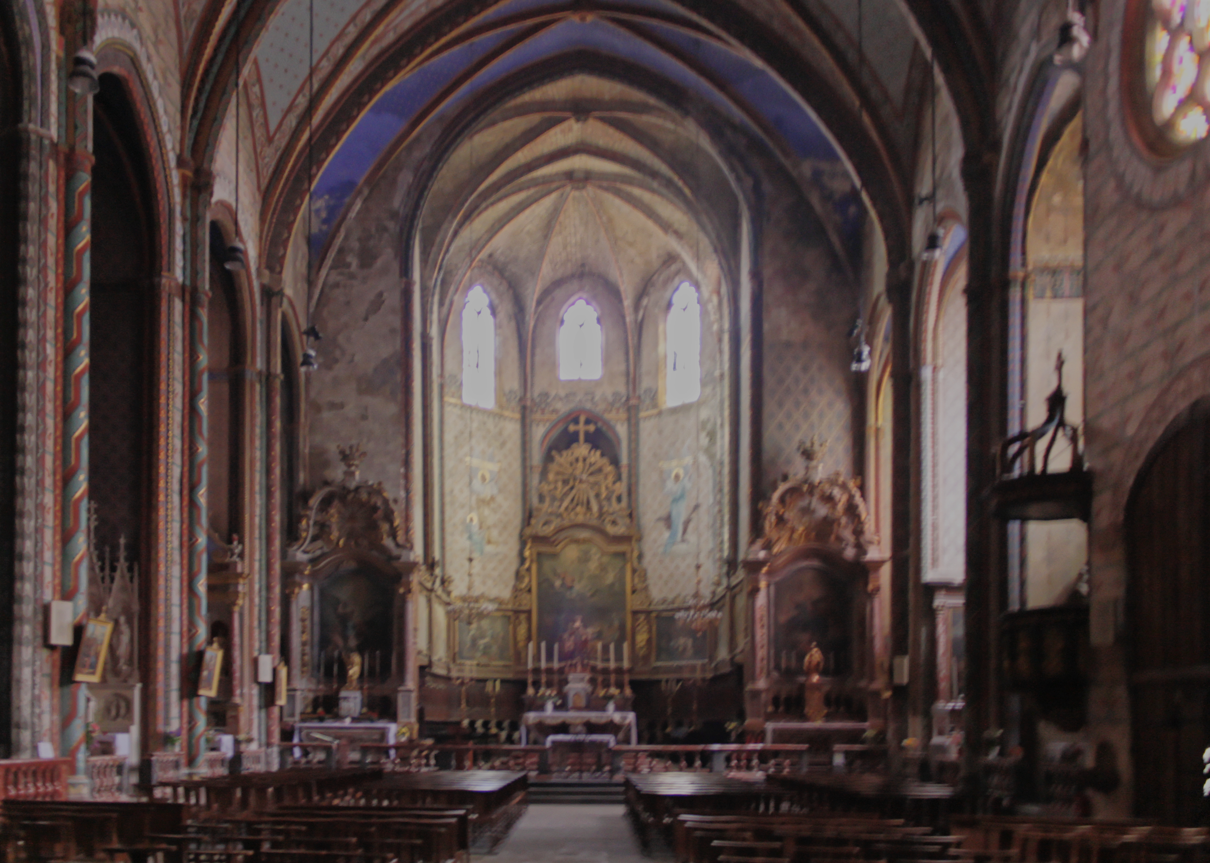 The nave arches support a ceiling covered with painted plaster, like the walls.